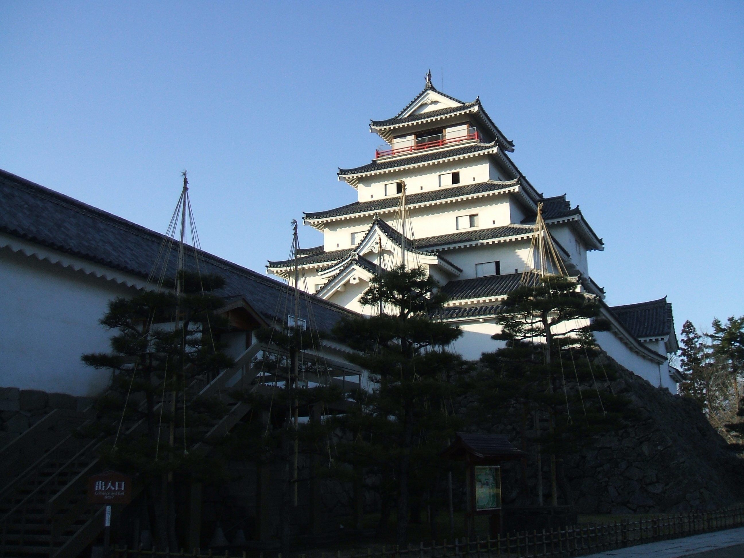 This is a landscape of Tsuruga-jyo castle. It was taken at Aizuwakamatsu, Fukushima, Japan.